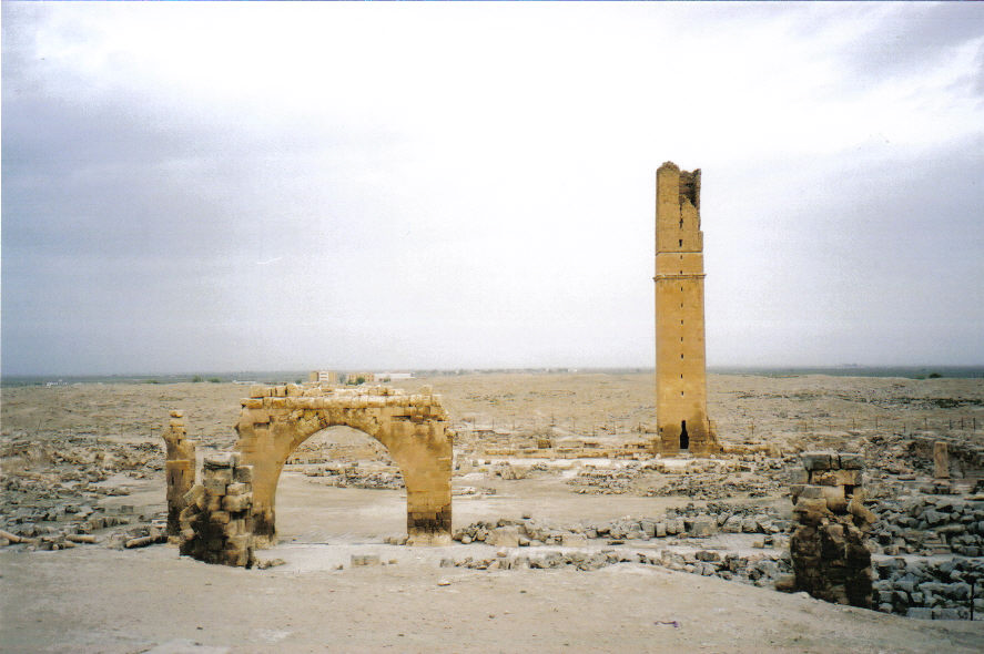 Ruins of the Harran University at Harran, South Eastern Turkey (C) Gerry Lynch, 2003.